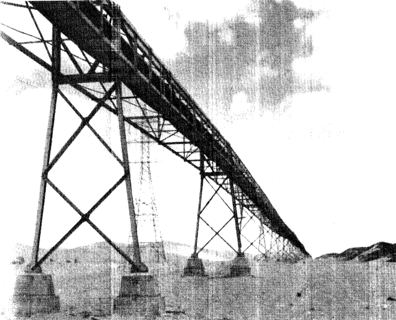 Automated conveyor belt between Boukraa and El Aaiún, in Spanish Sahara